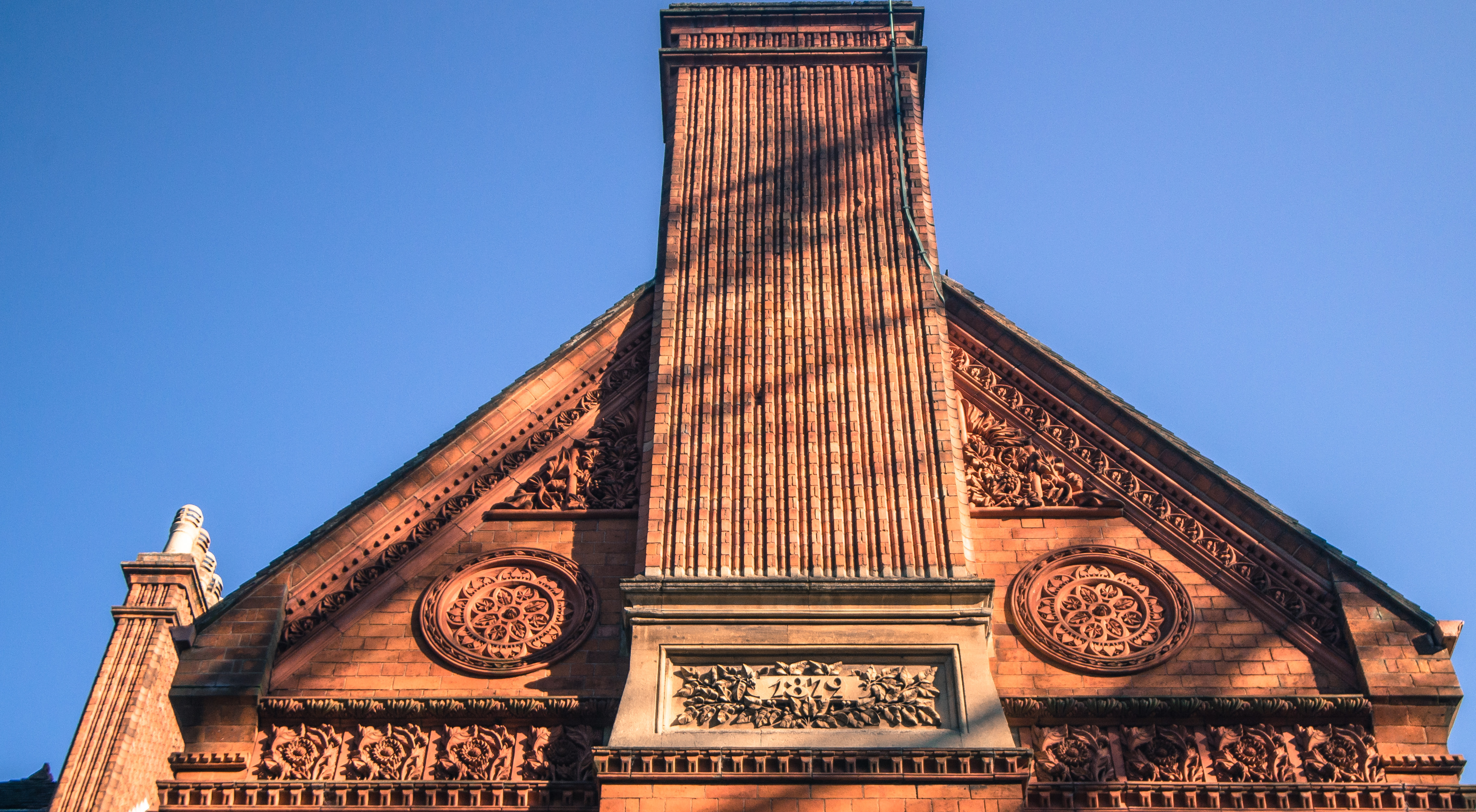 Highbury Hall, Moseley, Birmingham, UK. Former home of Joseph Chamberlain.